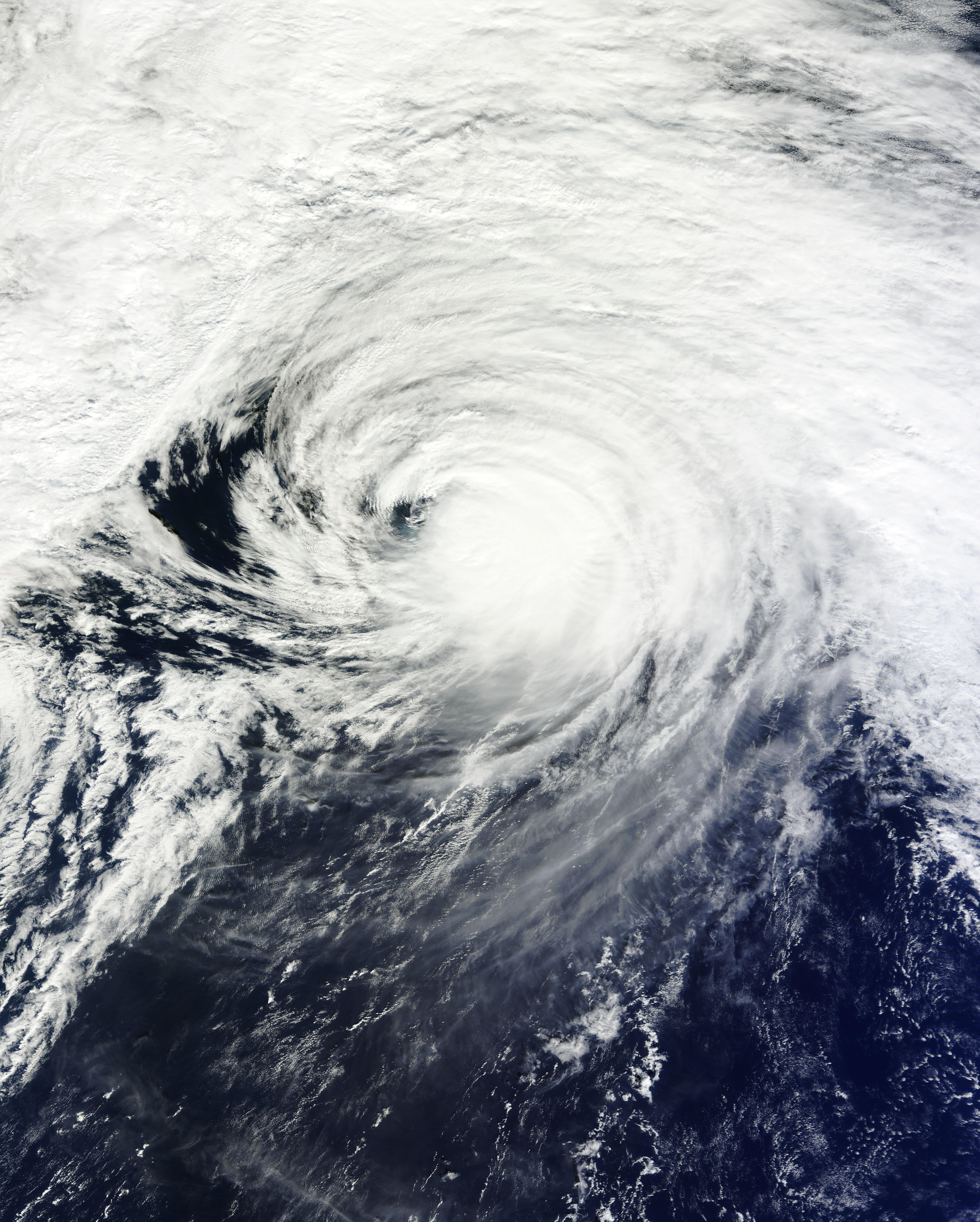 Typhoon Lekima (28W) in the Pacific Ocean on October 26,2013